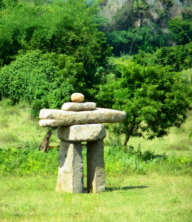 i took this photo on a trip to southern India in 2010